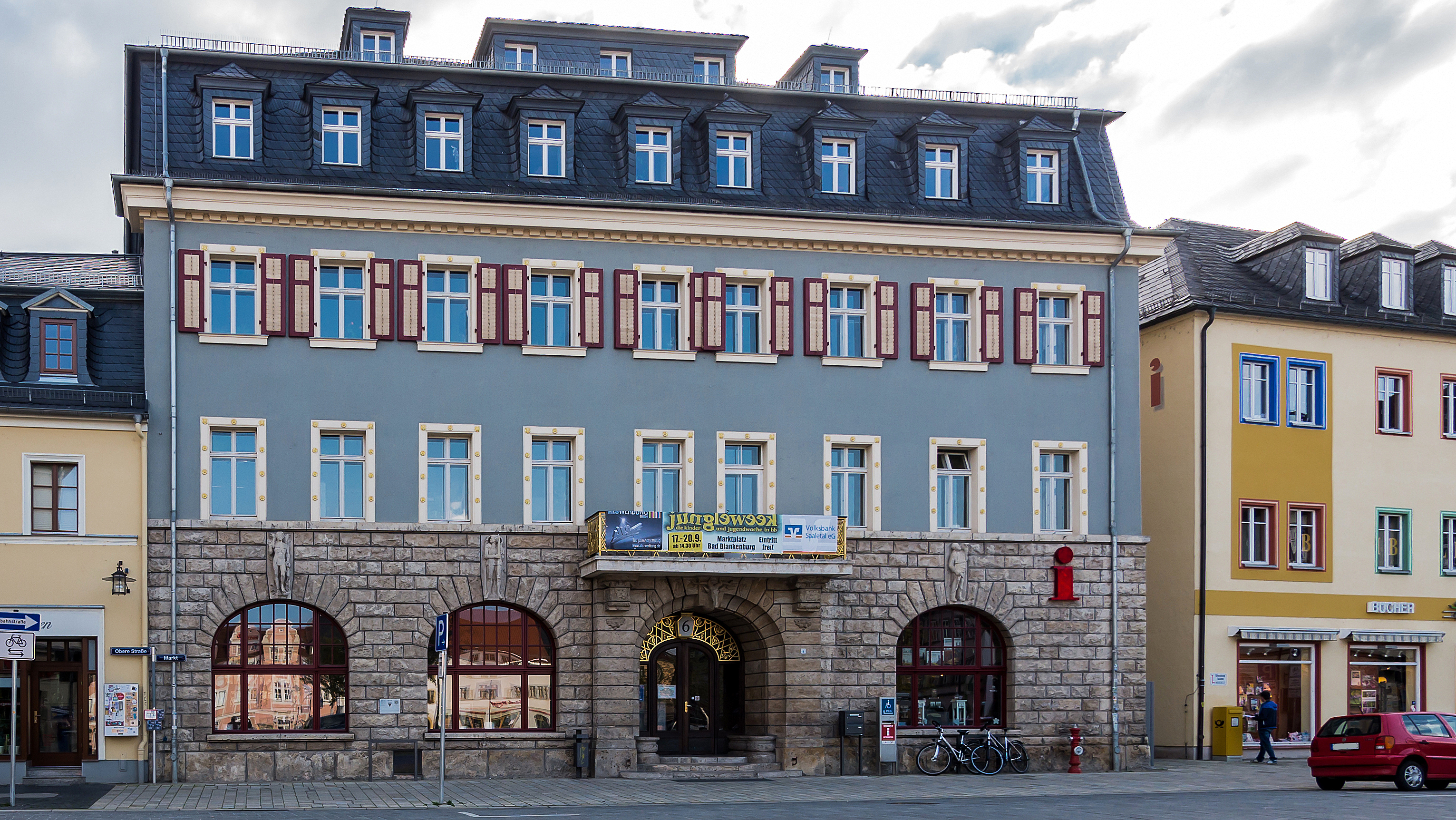 Saalfeld Markt 6 Ehem. Gasthof "Roter Hirsch" Bestandteil Denkmalensemble "Stadtkern Saalfeld-Saale"